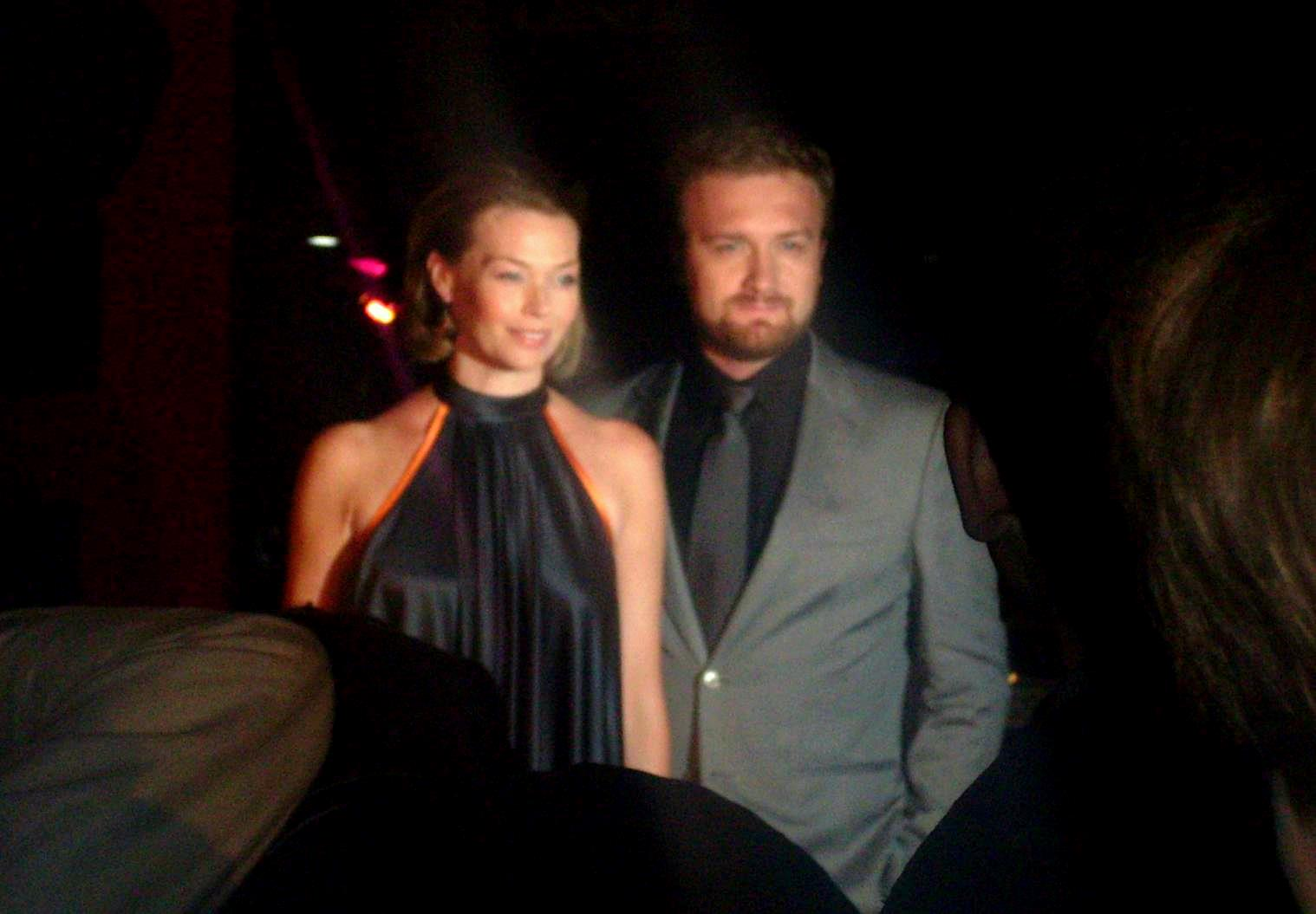 Actress Tamara Arciuch and actor Bartłomiej Kasprzykowski at close of the XXXIV Polish Film Festival in Gdynia 2009.